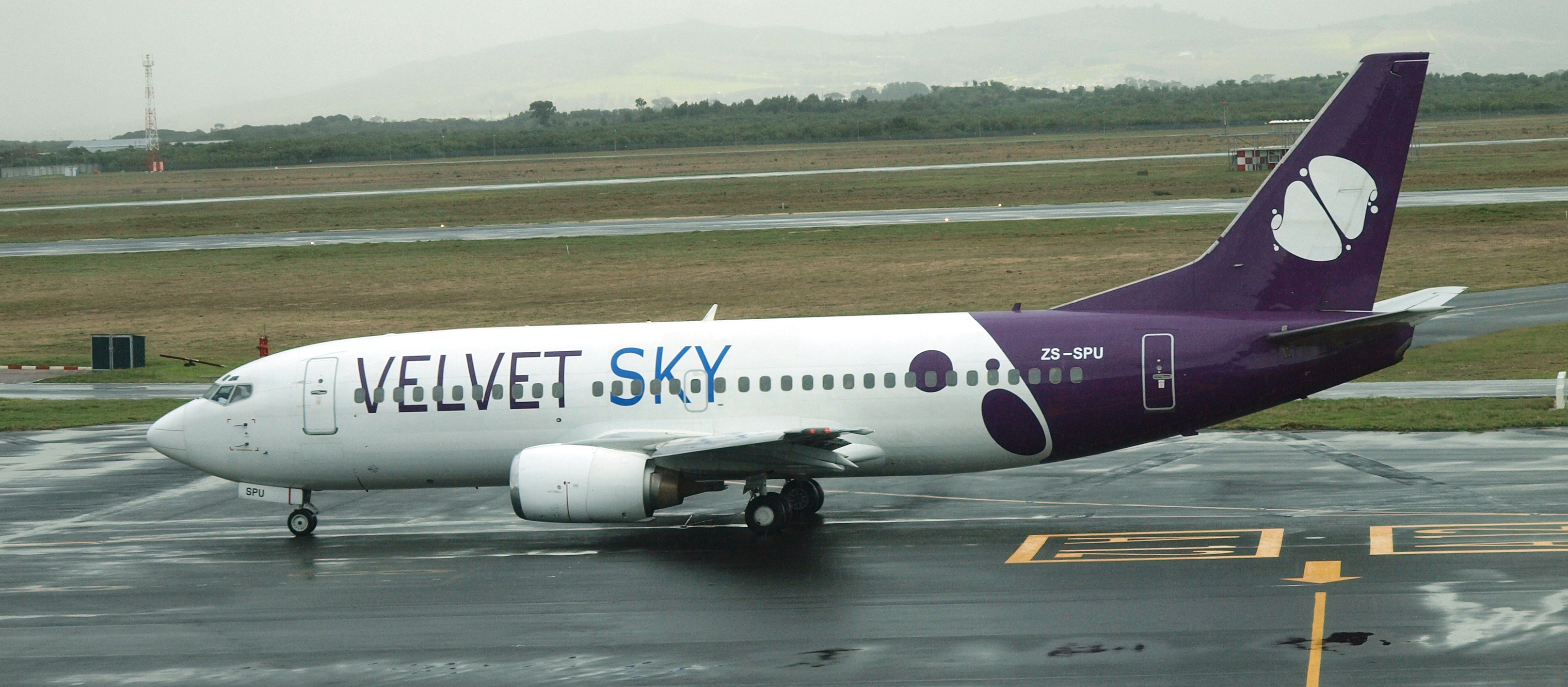 Boeing 737-300 (ZS-SPU) of Velvet Sky airline taxying from terminal at Cape Town International Airport on 24 June 2011.